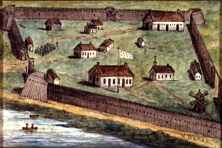 Painting, The Pallisaded Village of Lachine 1689